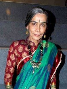 Surekha Sikri at Sony's Maa Exchange show launch